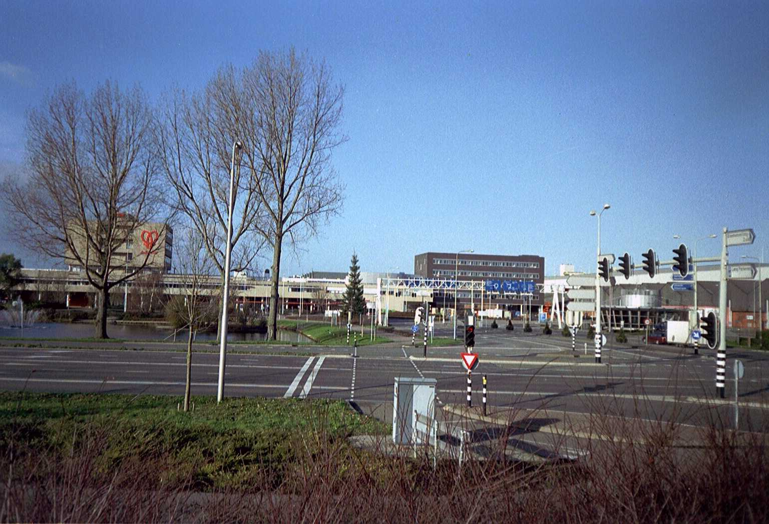 Entrance to the floral auction halls of Aalsmeer